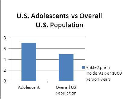 a bar graph that shows differences between ankle sprain incidences between adolescents and general population